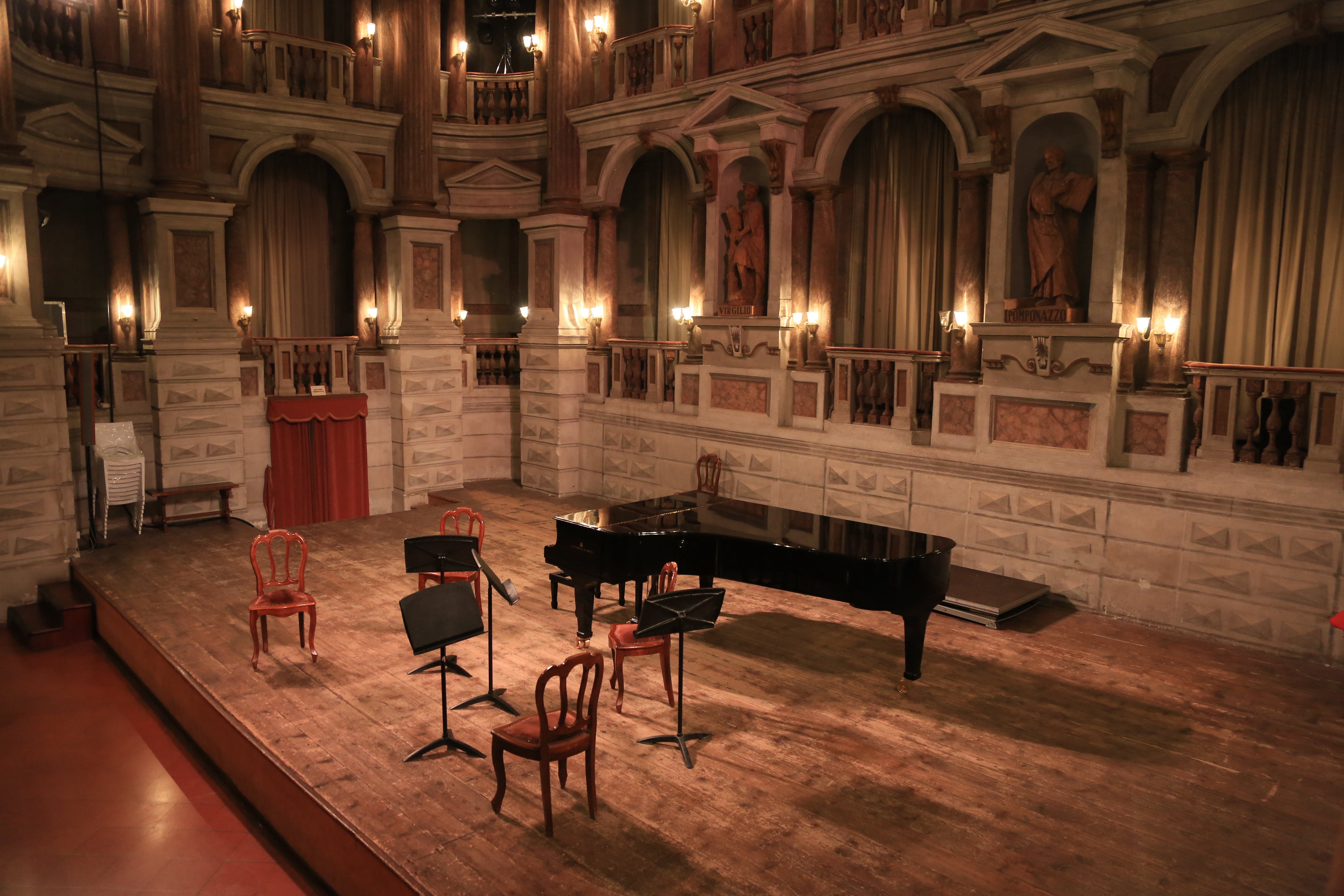 The theater Bibiena in Mantua. View of the Stage.